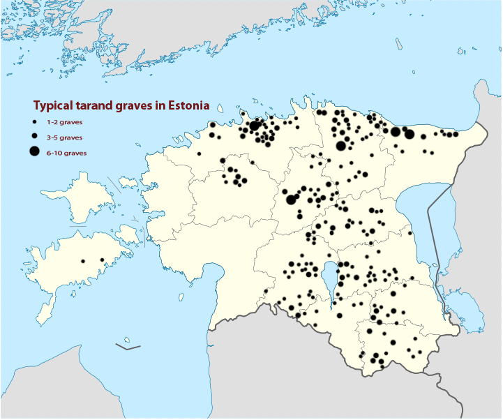 Typical tarand graves in Estonia